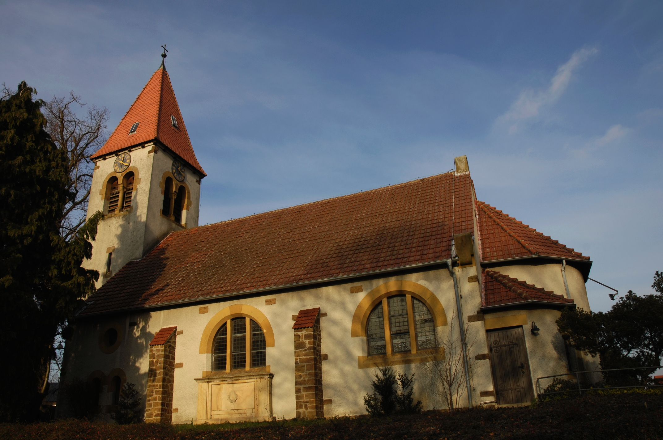 This is a photograph of an architectural monument.